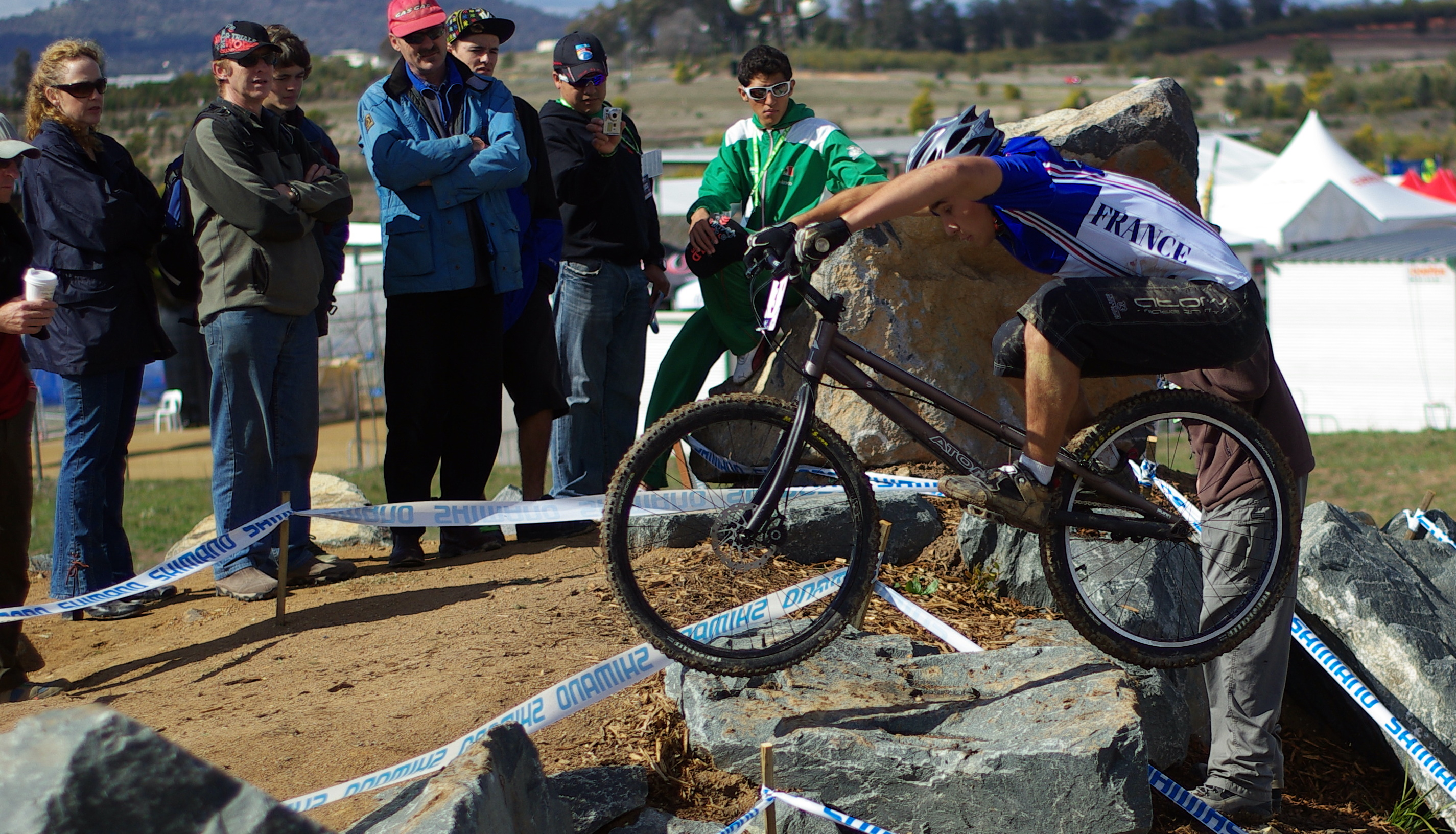 Competitor in the observed trials events at the 2009 UCI Mountain Bike & Trials World Championships held in Canberra, Australia.